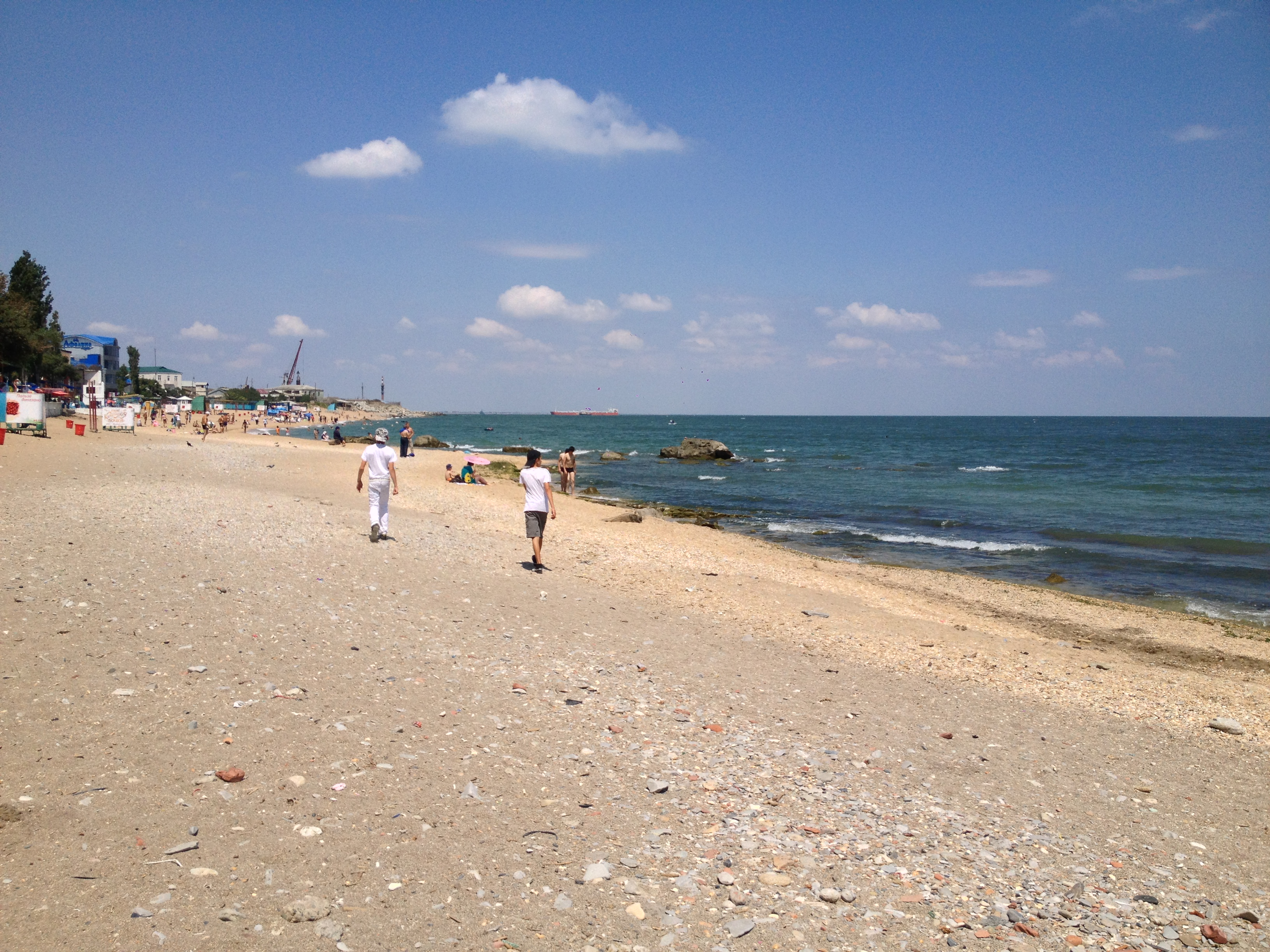 Kirovskiy rayon, Makhachkala, Dagestan Republits, Russia